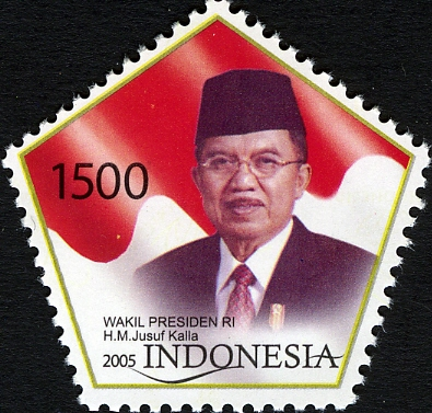 Stamps of Indonesia